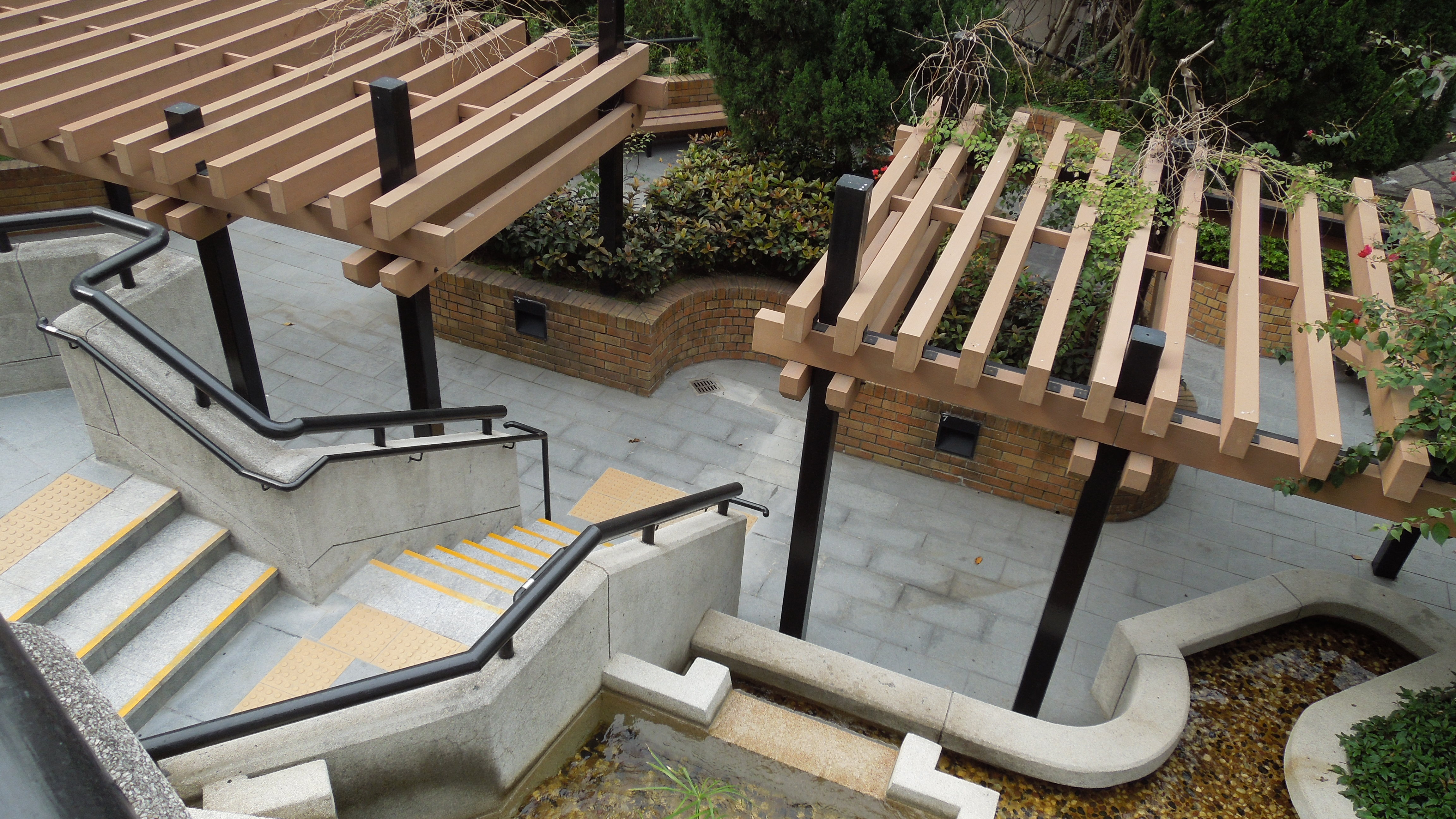 中文（香港）: Kotewall road